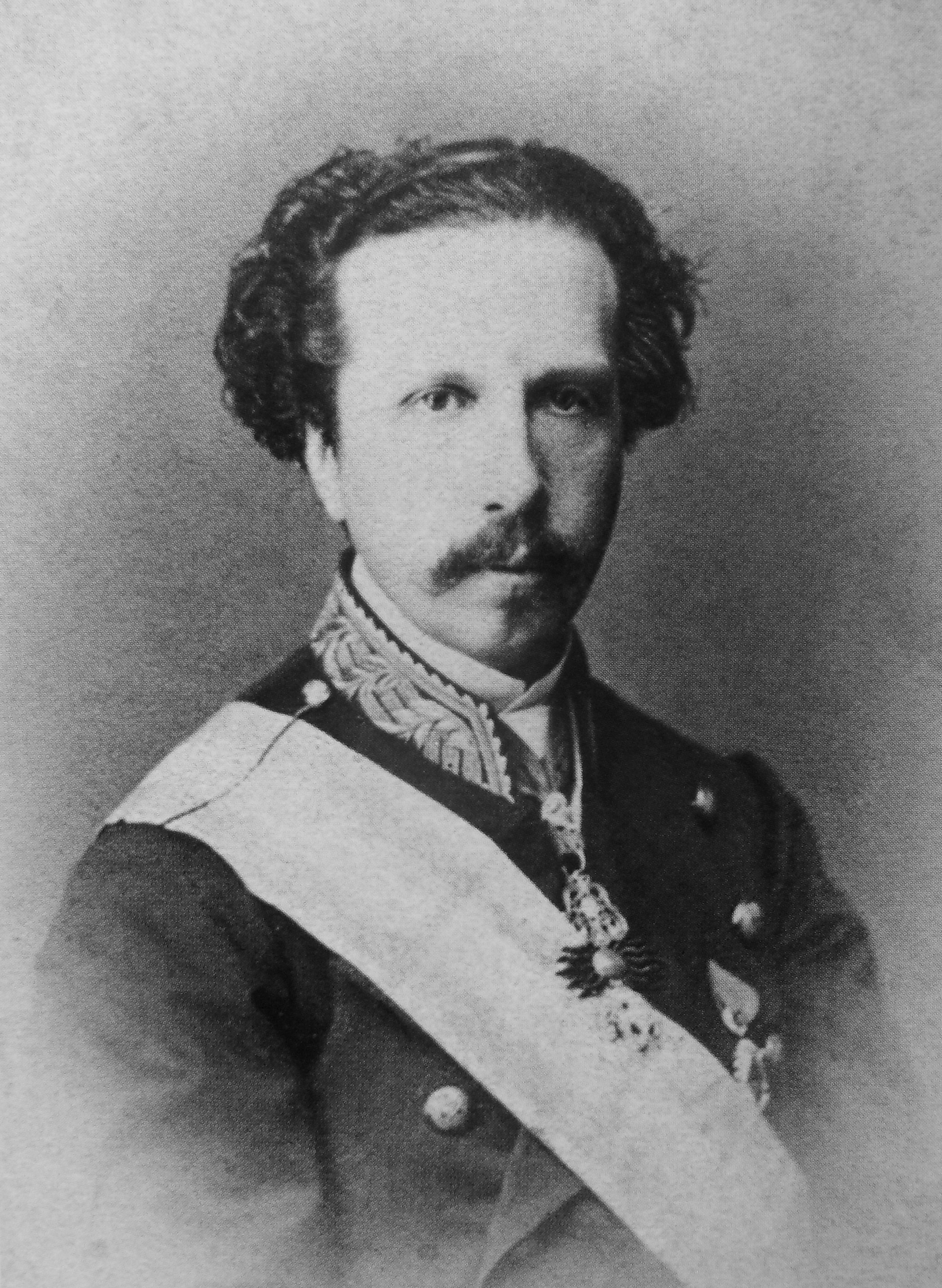 Francisco de Asis of Bourbon King consort of Spain